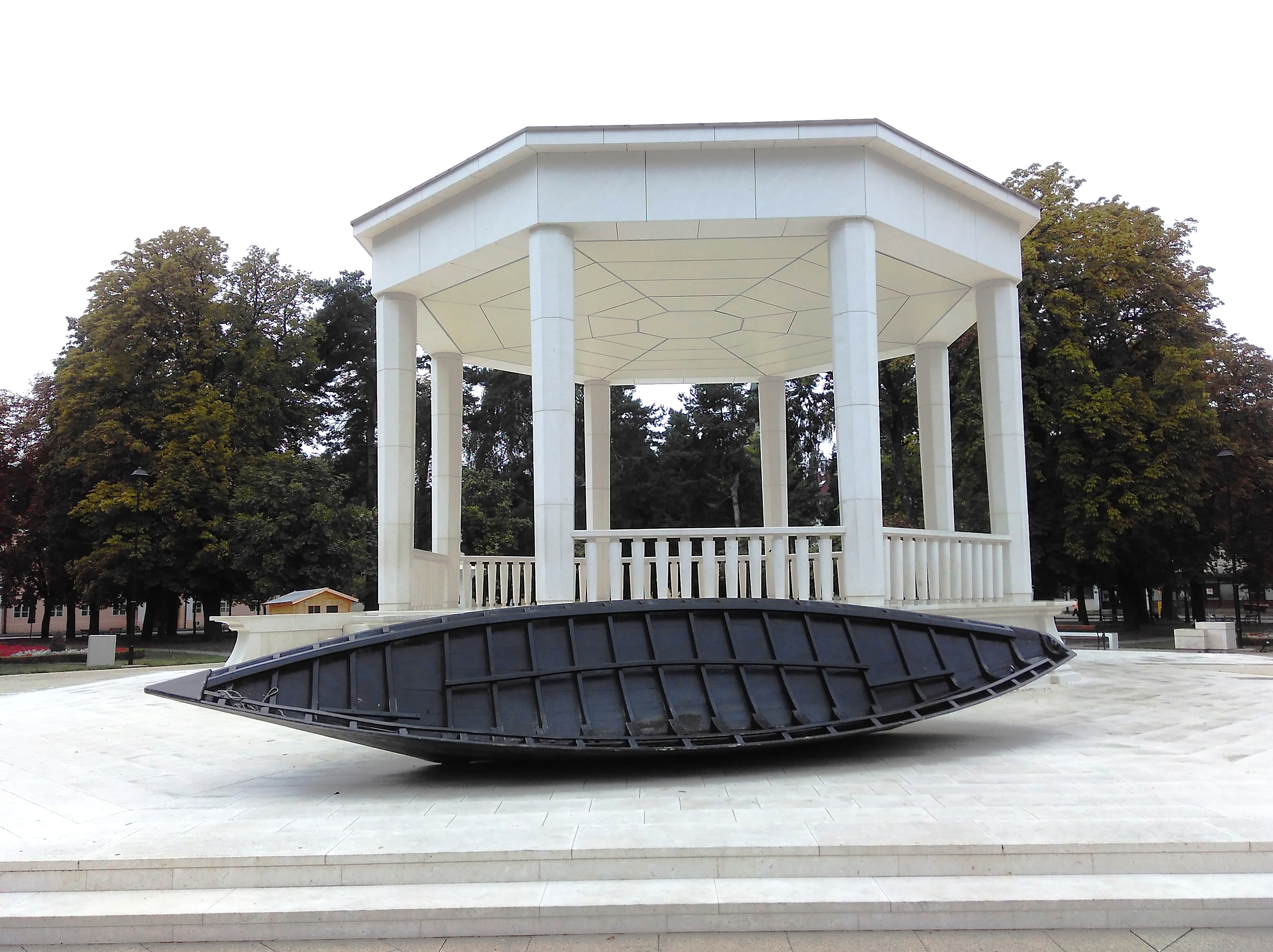 Cultural-historical part of the town of Bjelovar. This is a a photo of a cultural heritage in Croatia with ID: Z-3164